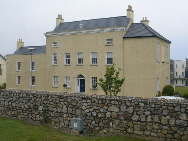 Rochestown Avenue, Sallynoggin Compare this traditional build house (complete with extensions) to the glass-and-aluminium variant in the adjacent square. I know which I'd prefer to live in! (Even if cream isn't my favourite colour!).